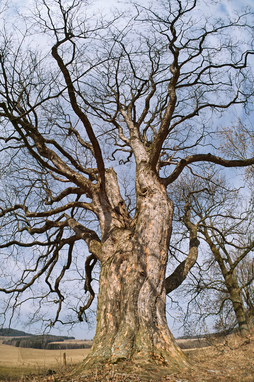 Memorable sycamore-maple tree in Babi village (Cesky Krumlov district), Czech Republic